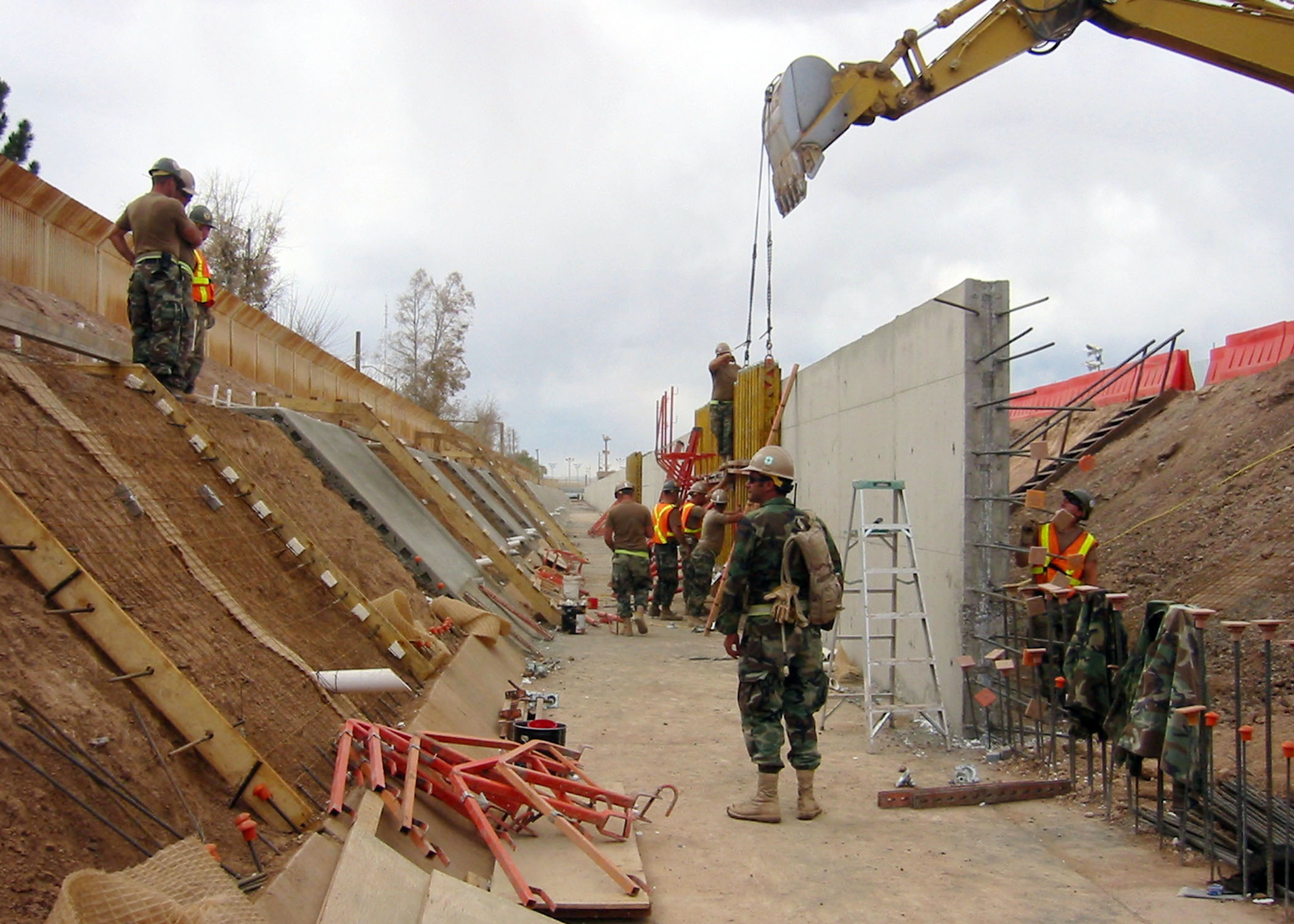 DOUGLAS, Ariz. (March 14, 2009) Seabees assigned to Naval Mobile Construction Battalions (NMCB) 133 and NMCB-14 construct a 1,500 foot-long concrete-lined drainage ditch and a 10 foot-high wall to increase security along the U.S. and Mexico border in Douglas, Ariz. Builder 3rd Class Petty Officer Ian Burkhard in foreground. (U.S. Navy photo by Steelworker 1st Class Matthew Tyson/Released)